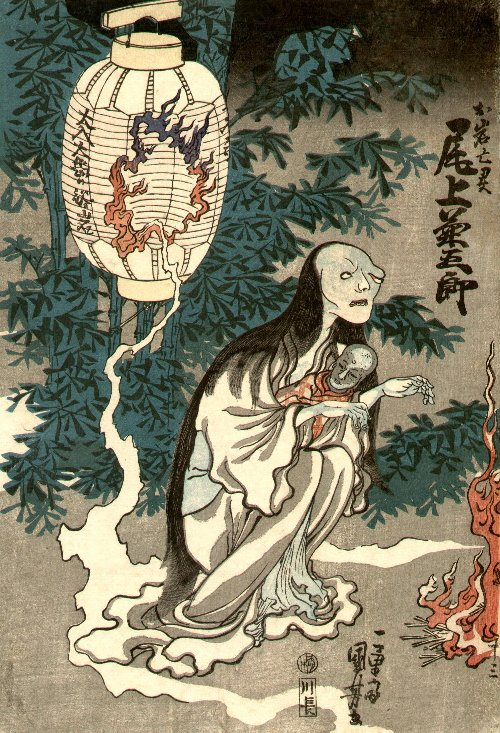 Woodblock print of Onoe Kikugoro III as the Ghost of Oiwa in the play Yotsuya Kaidan by Utagawa Kuniyoshi.